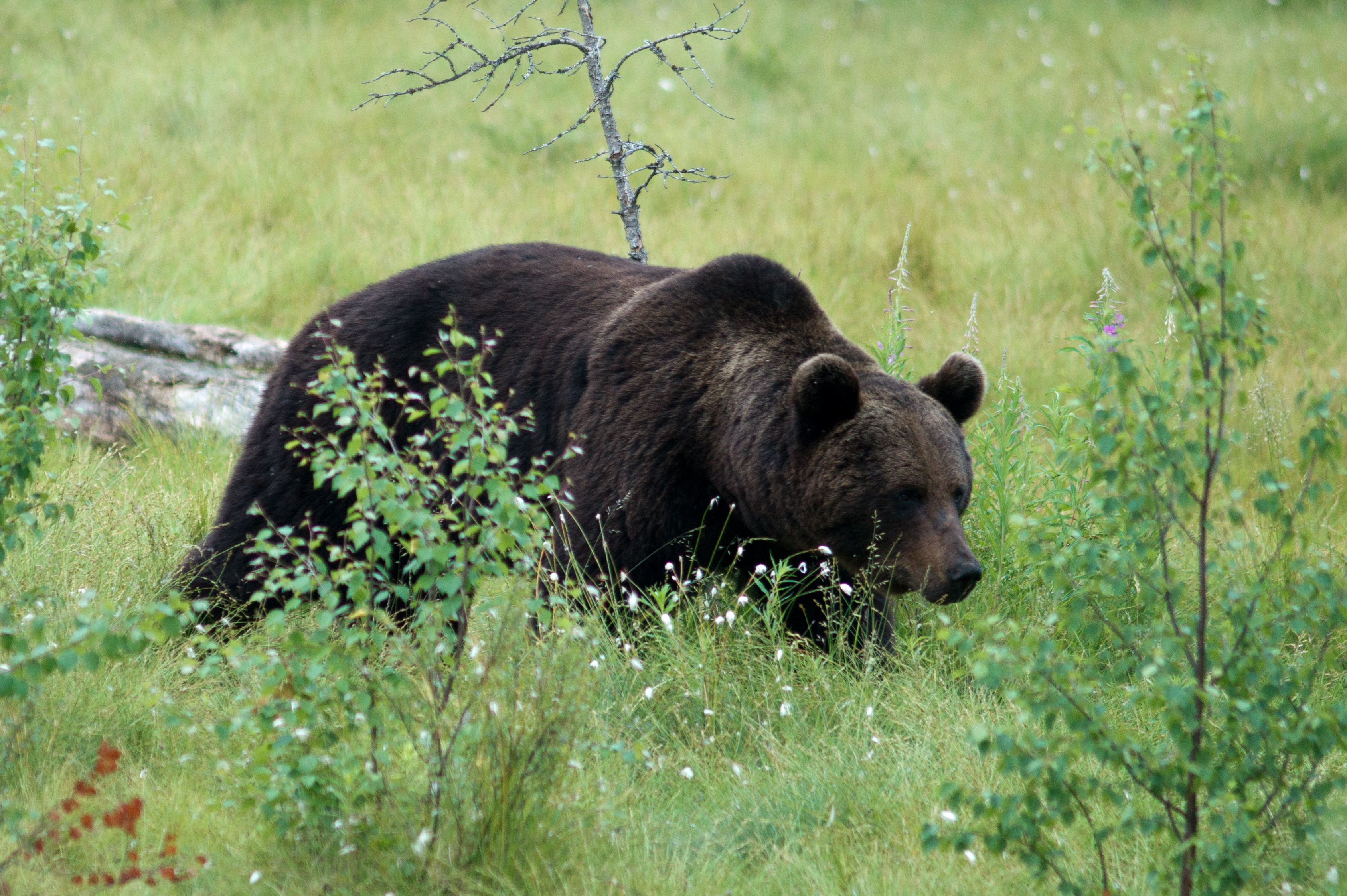 A brown bear in Finland